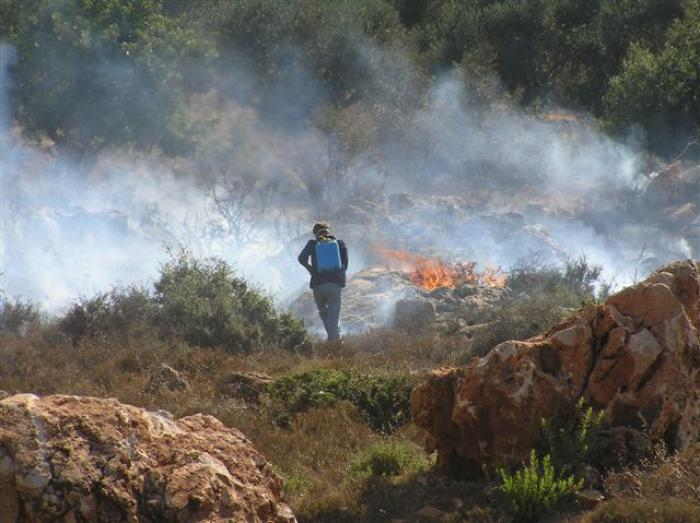 the field by the main gate caught on fire after a Katyusha rocket hit, Notes: (2070)